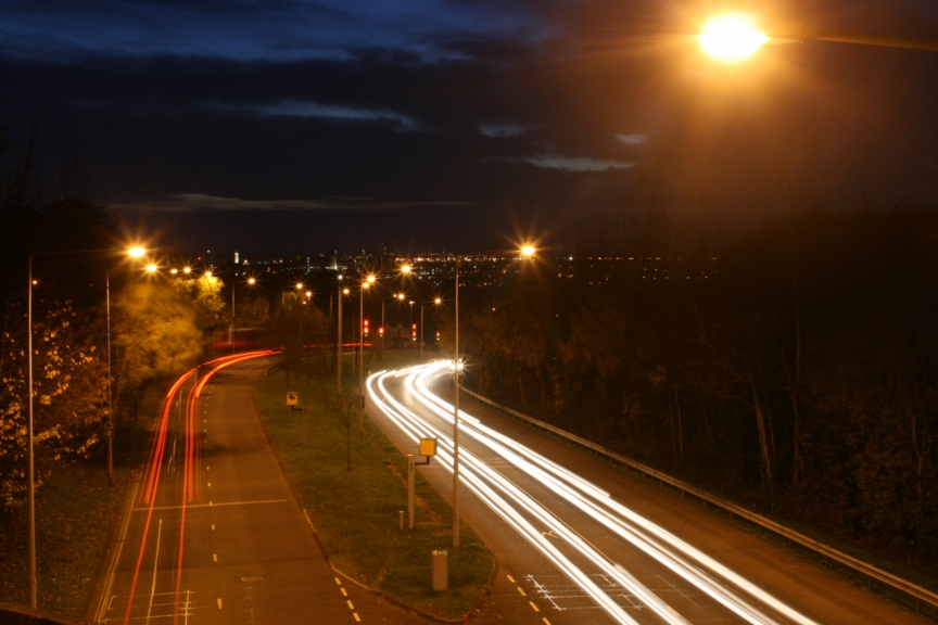 Bitterne Bypass at night